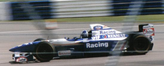 David Coulthard driving for WilliamsF1 at the 1995 British Grand Prix.